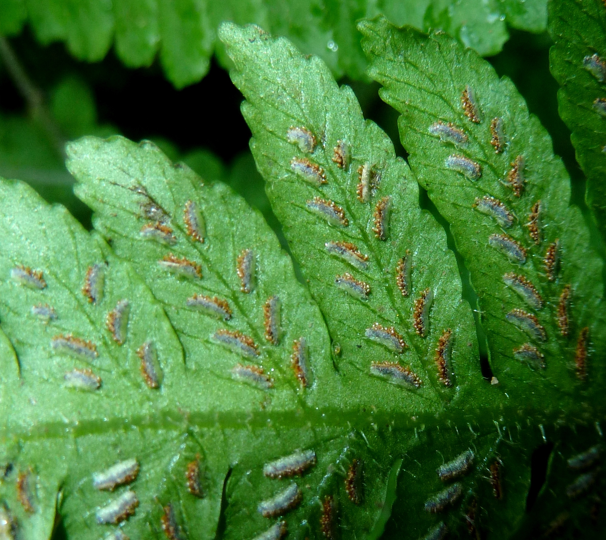 Brown sporangia, arranged in sori under greyish indusium membranes, on the frond underside of a Japanese lady fern in Krantzkloof Nature Reserve. The species is an invasive exotic weed in South Africa since the early 1980s, cf. Crouch, Klopper & Burrows.